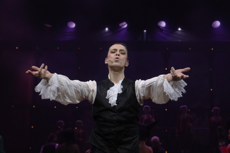 Nuno Resende in performance